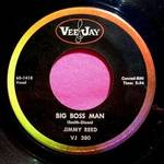 Big Boss Man